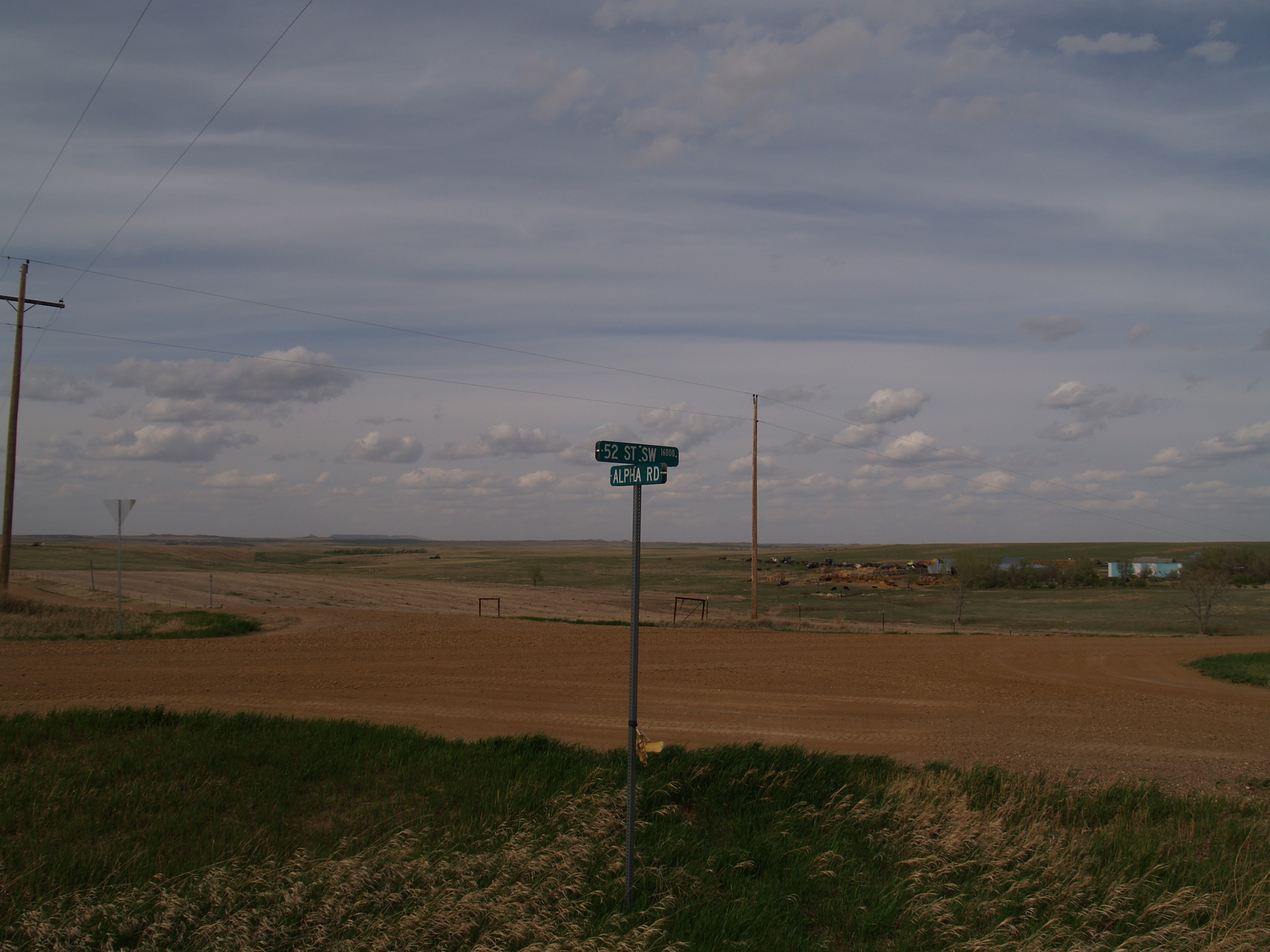 Alpha, North Dakota